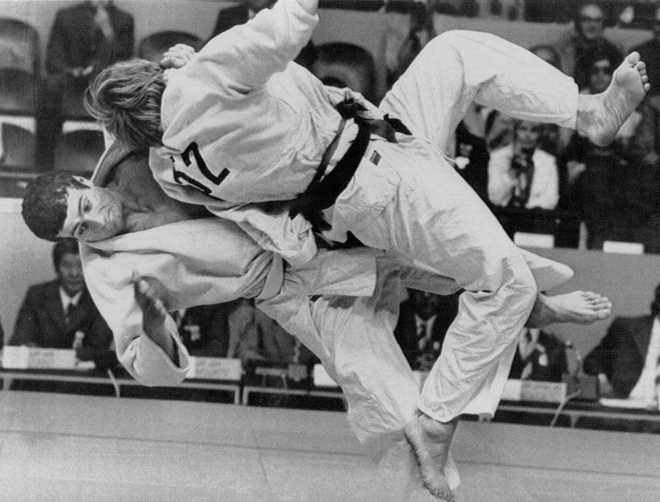 LG3 1972 Wire Photo DAVID COLIN STARBROOK SHOTA CHOCHOSHVILI Olympic Judo Flip